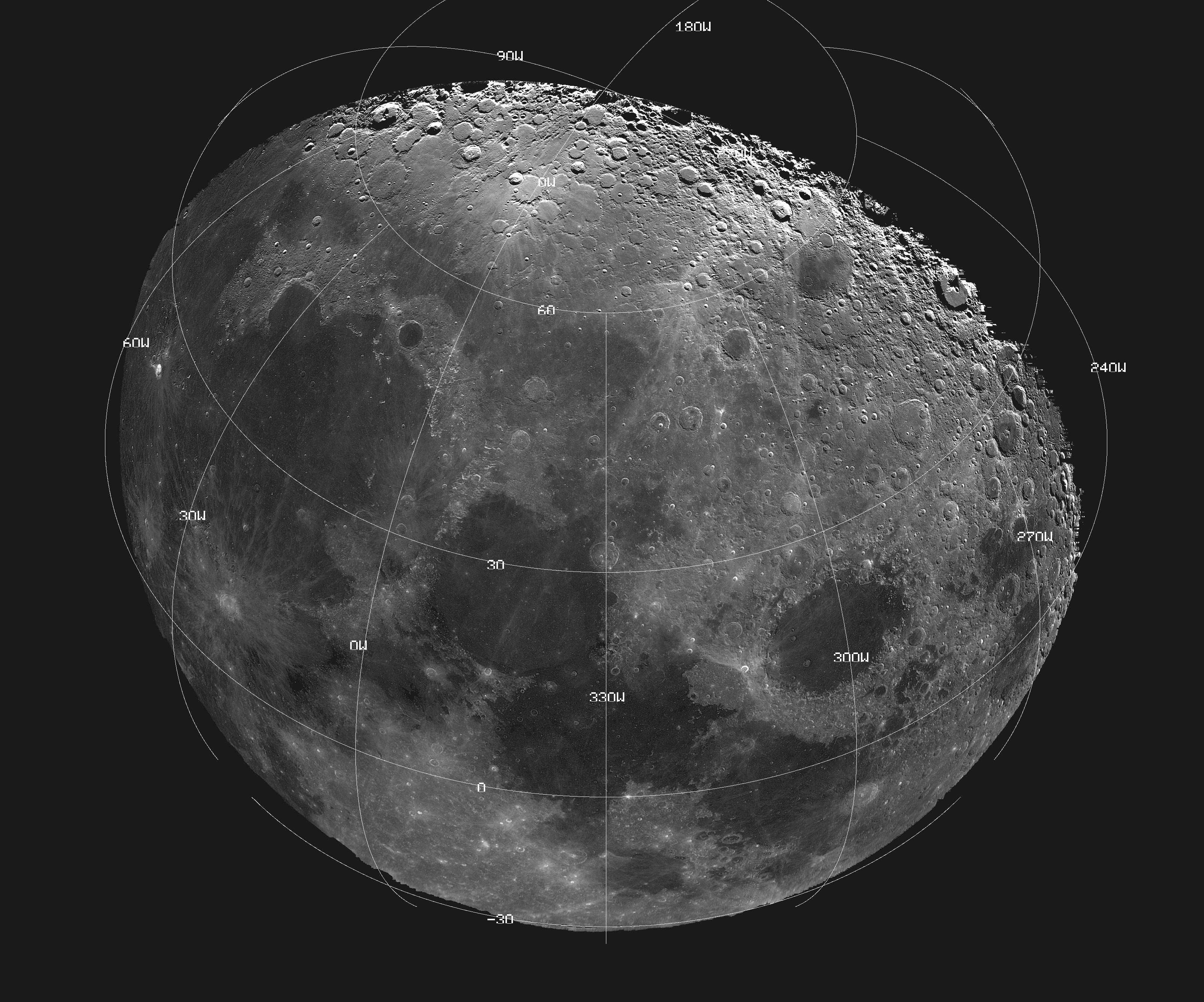 This mosaic picture of the Moon was compiled from 18 images taken with a green filter by Galileo's imaging system during the spacecraft's flyby on December 7, 1992, some 11 hours before its Earth flyby at 1509 UTC (7:09 a.m. Pacific Standard Time) December 8. The north polar region is near the top part of the mosaic, which also shows Mare Imbrium, the dark area on the left; Mare Serenitatis at center; and Mare Crisium, the circular dark area to the right. Bright crater rim and ray deposits are from Copernicus, an impact crater 96 kilometers (60 miles) in diameter. Computer processing has exaggerated the brightness of poorly illuminated features near the day/night terminator in the polar regions, giving a false impression of high reflectivity there. The digital image processing was done by DLR the German aerospace research establishment near Munich, an international collaborator in the Galileo mission. The Galileo project, whose primary mission is the exploration of the Jupiter system in 1995-97, is managed for NASA's Office of Space Science and Applications by the Jet Propulsion Laboratory.